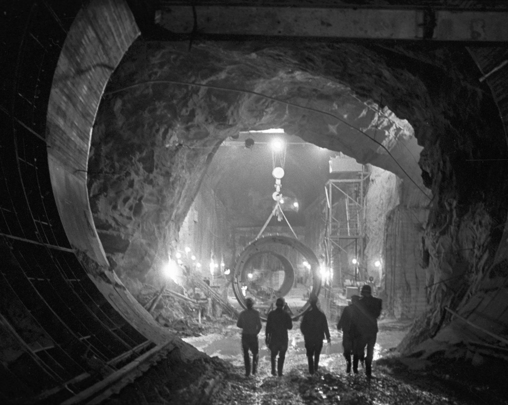 “Nurekskaya HPP construction”. Workers in the tunnel that will deliver the reservoir waters to the Nurekskaya HPP turbines.